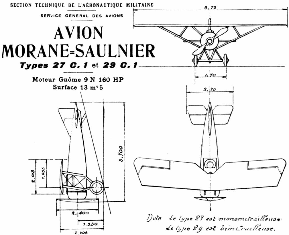 Morane Saulnier AI French World War 1 single seat parasol monoplane fighter